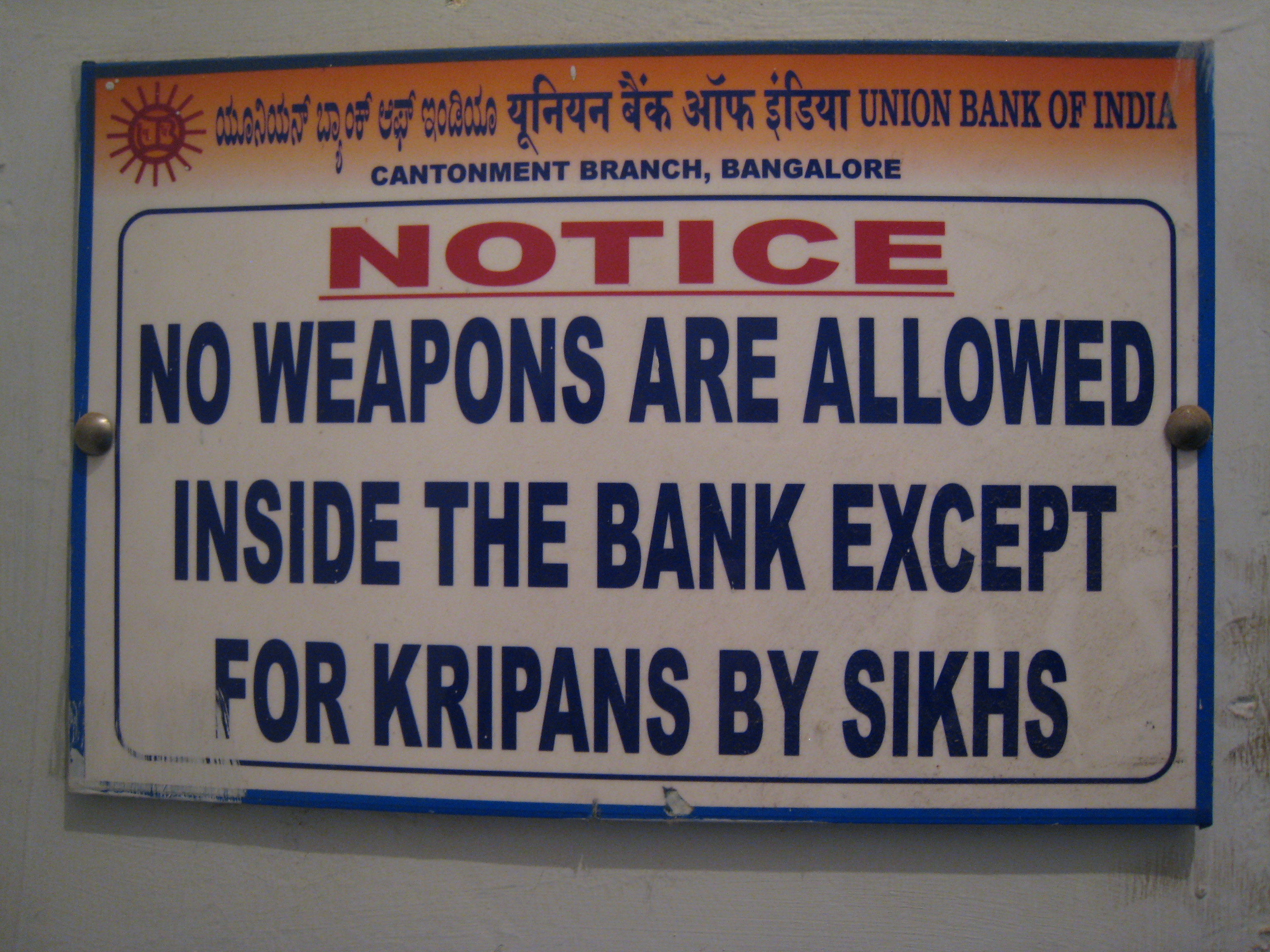 The sign says "No weapons are allowed inside the bank except for kripans [sic] by Sikhs." ("kripan" refers to "kirpan", the Sikh religiously prescribed dagger)No Weapons